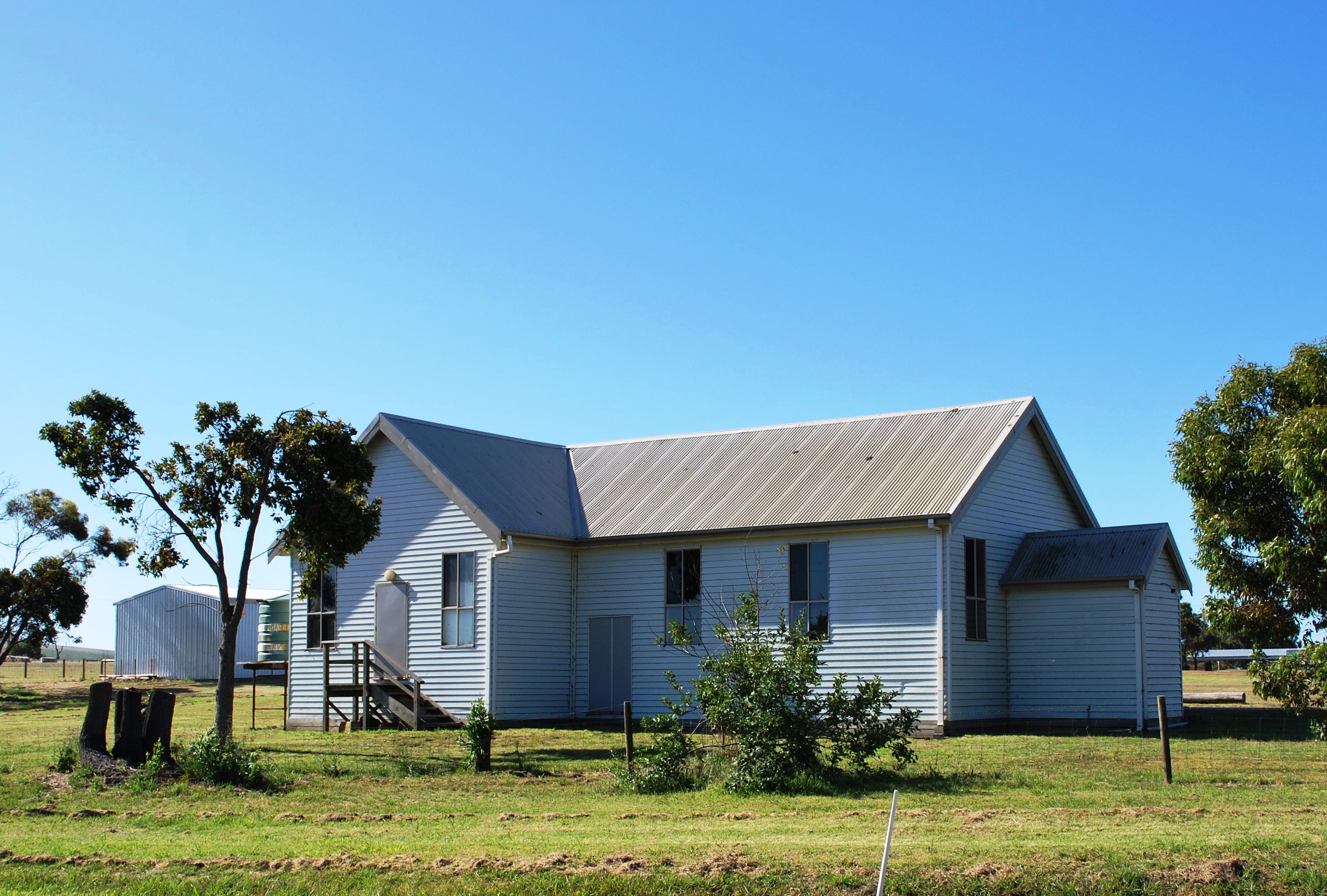 Memorial hall in the Recreation Reserve at Tyrendarra, Victoria